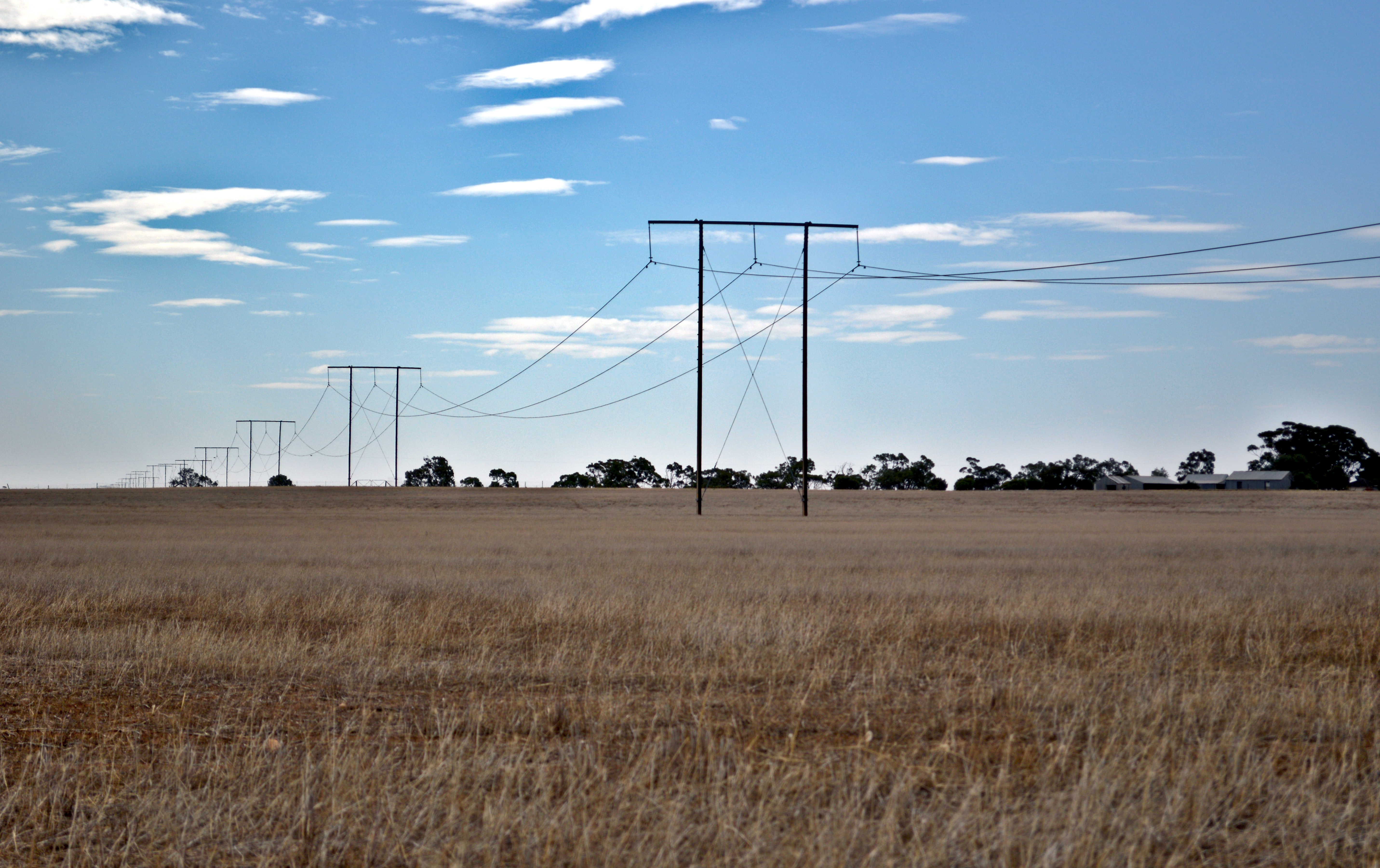 High Voltage Lines in Reeves Plains, South Australia